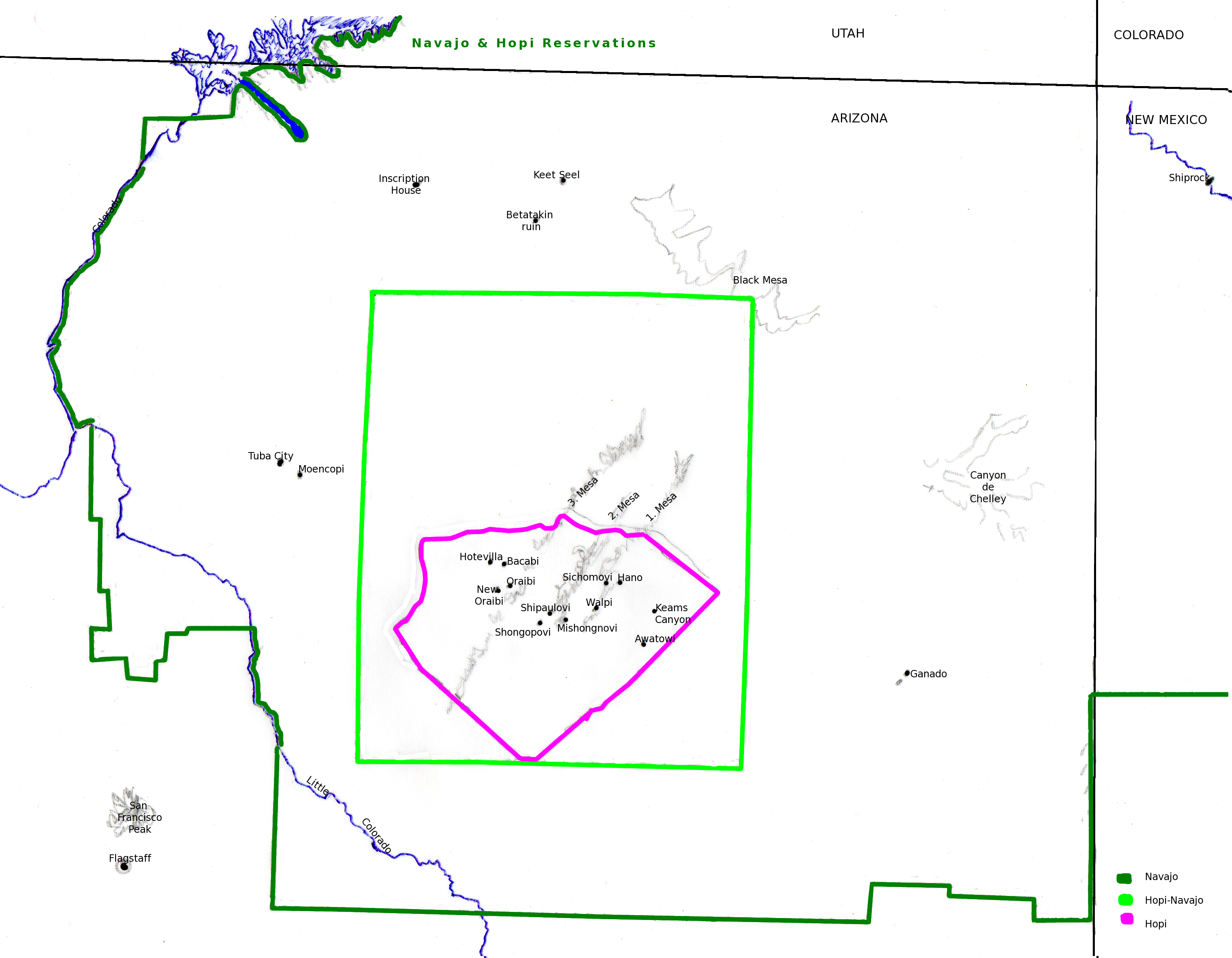 Hopi reservation with pueblos indicated